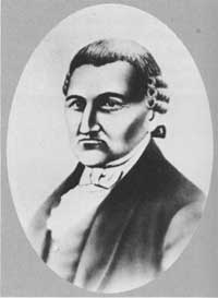 David Brearly. Signer of the American Declaration of Independence.